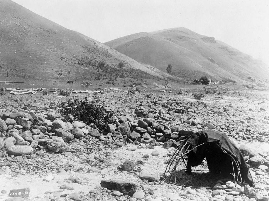 Nez Percé sweat-lodge – Landscape, lashed pole framed with blanket, large smooth stones in dry river bed, house, fence and hills in background.